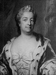 Portrait of Eva de la Gardie (1724-1786), Swedish scientist